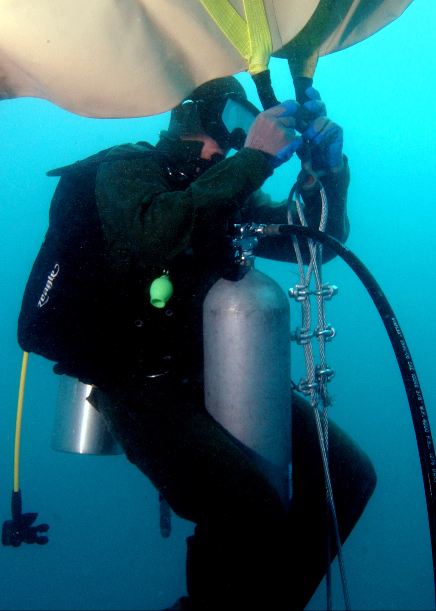 070604-N-4868G-007 PANAMA CITY, Fla. (June 4, 2007) - A U.S. Navy Diver attached to Mobile Diving Salvage Unit (MDSU) 2 Det. 6 prepares a lift bag to salvage tires off the coast of Fort Lauderdale, Florida. MDSU 2 is conducting salvage operations in conjunction with U.S. Army Deep Sea Divers, and U.S. Coast Guard divers through the Innovative Readiness Training program. The goal of the salvage mission is to retrieve approximately 2 million tires. The tires were placed on the ocean floor in the 1970s to act as an artificial reef. However, coral would not stick to the rubber and the tires now present an environmental hazard. Salvage operations will continue for the next month then resume next year. U.S. Navy photo by Mass Communication Specialist 3rd Class Jack Georges (RELEASED)